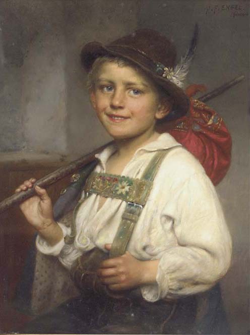 Johann Friedrich Engel: ? , oil on panel, ?, 34 x 25.5 cm. Created in Muchen.